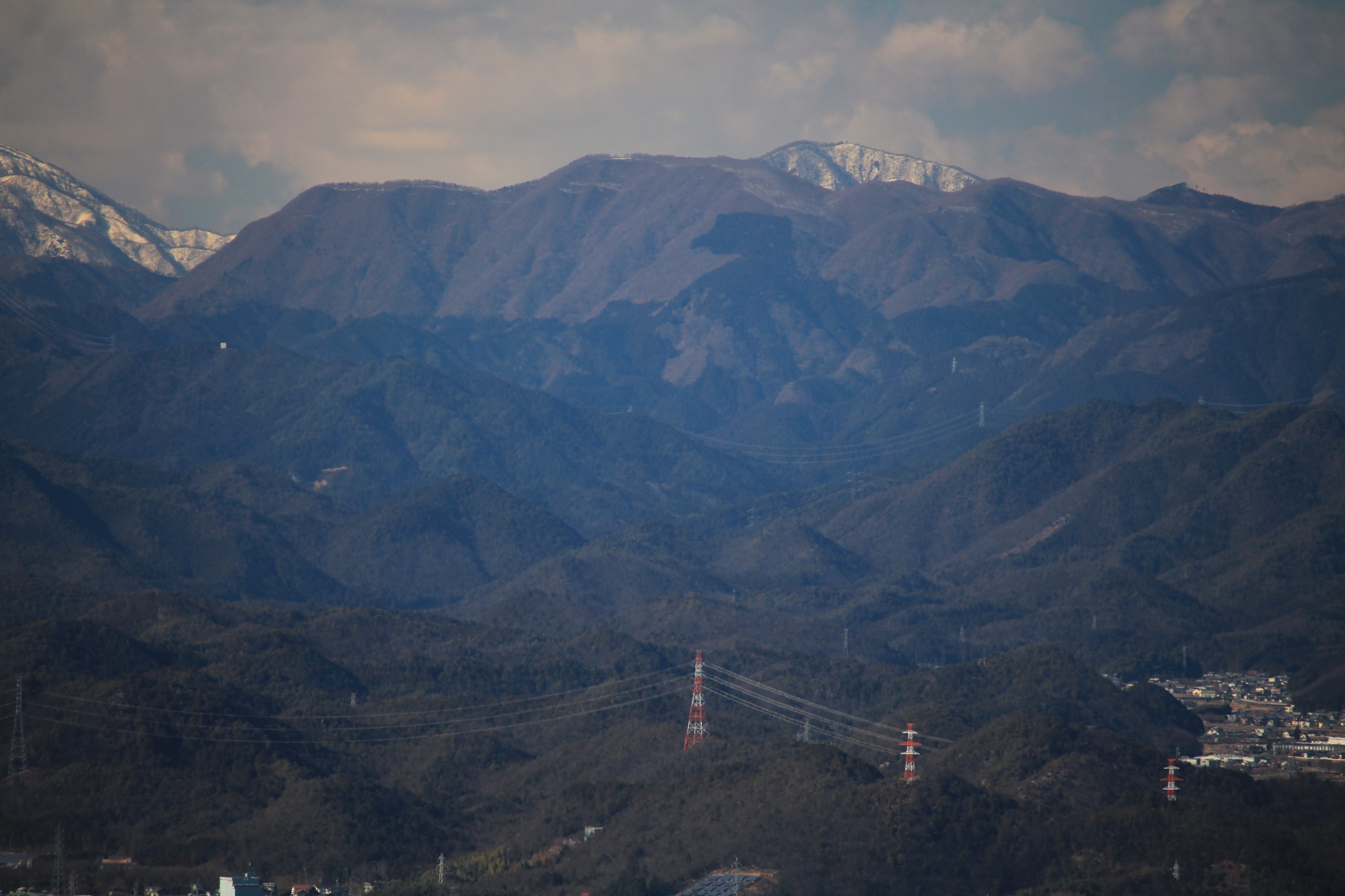 Mount Funabuse seen from Mount Myoo in Gifu Prefecture, Japan.